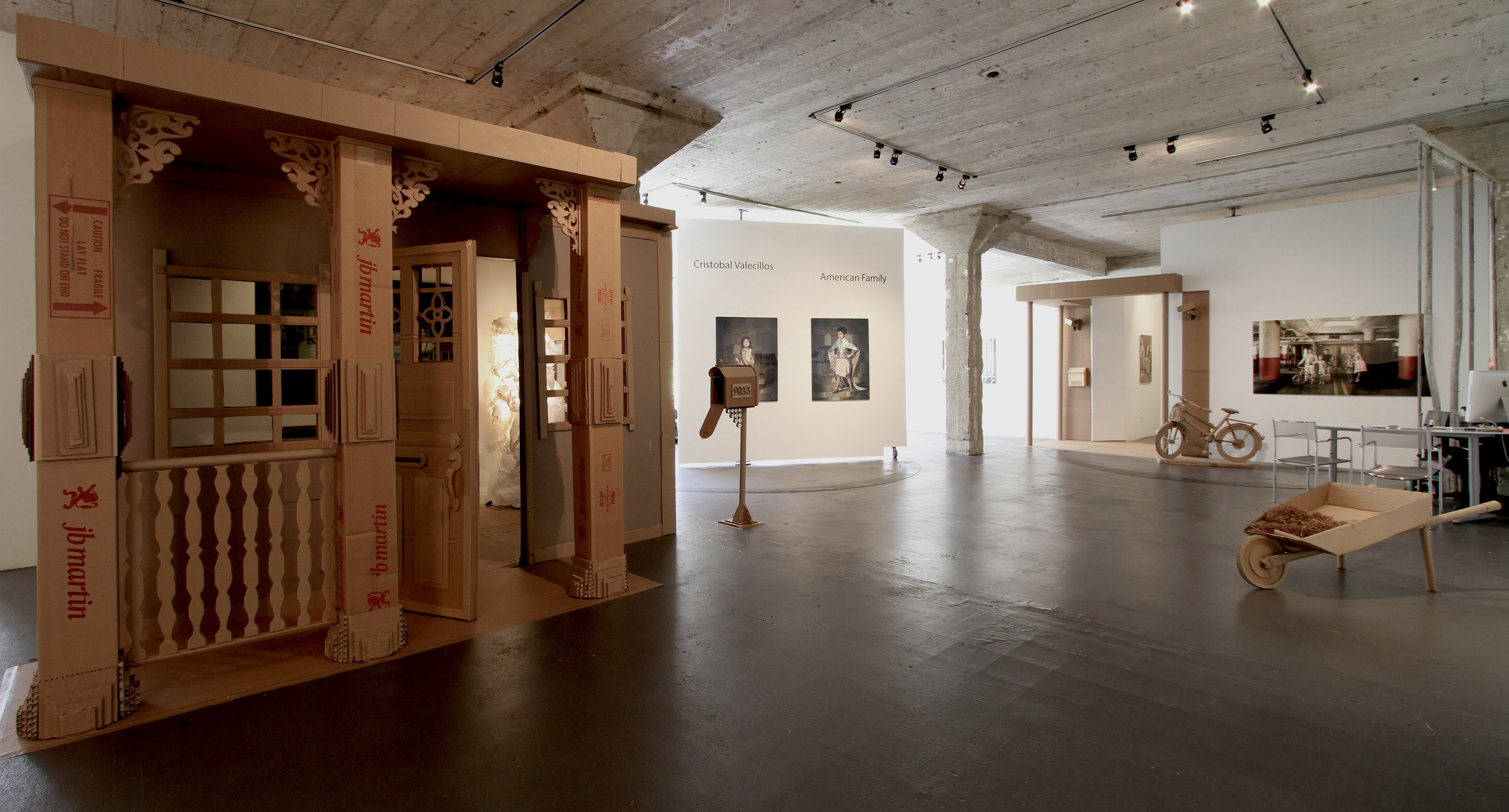 McLoughlin Gallery Photo